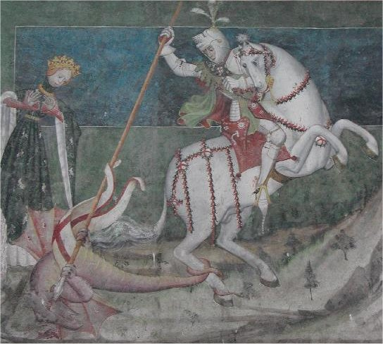 St. George killing the dragon